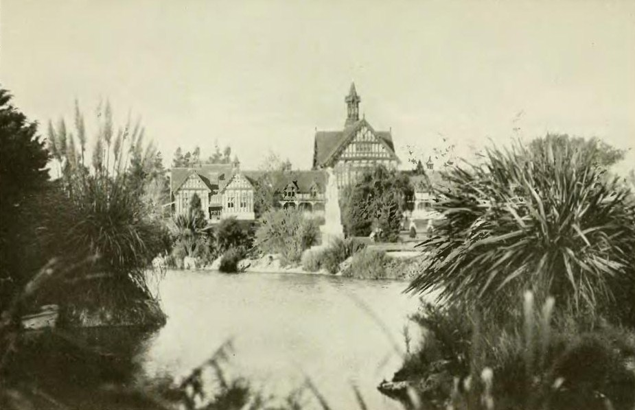 Image from scanned book at Wikisource